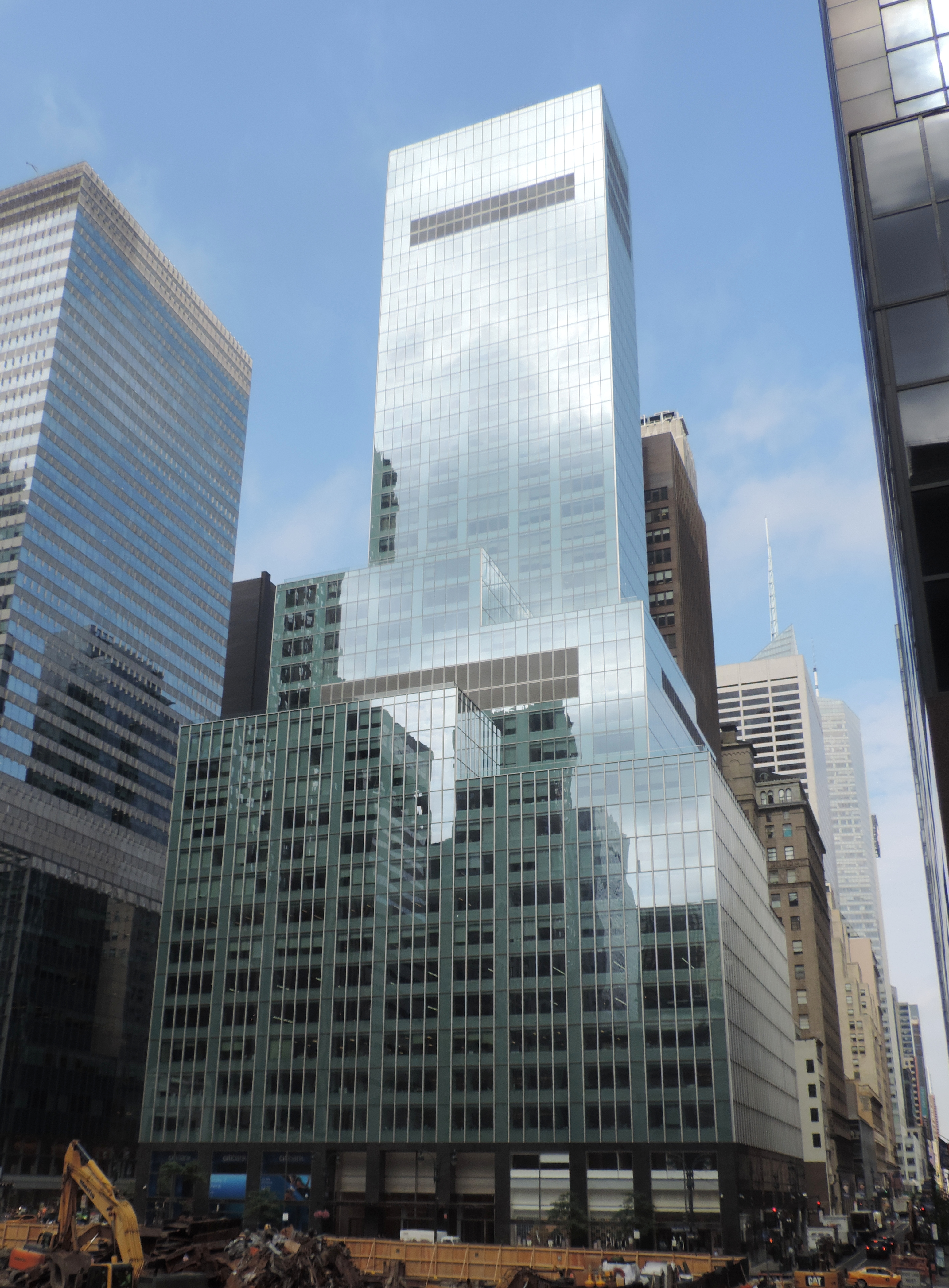 Looking west from viaduct at 330 Madison Avenue on a partly cloudy late morning